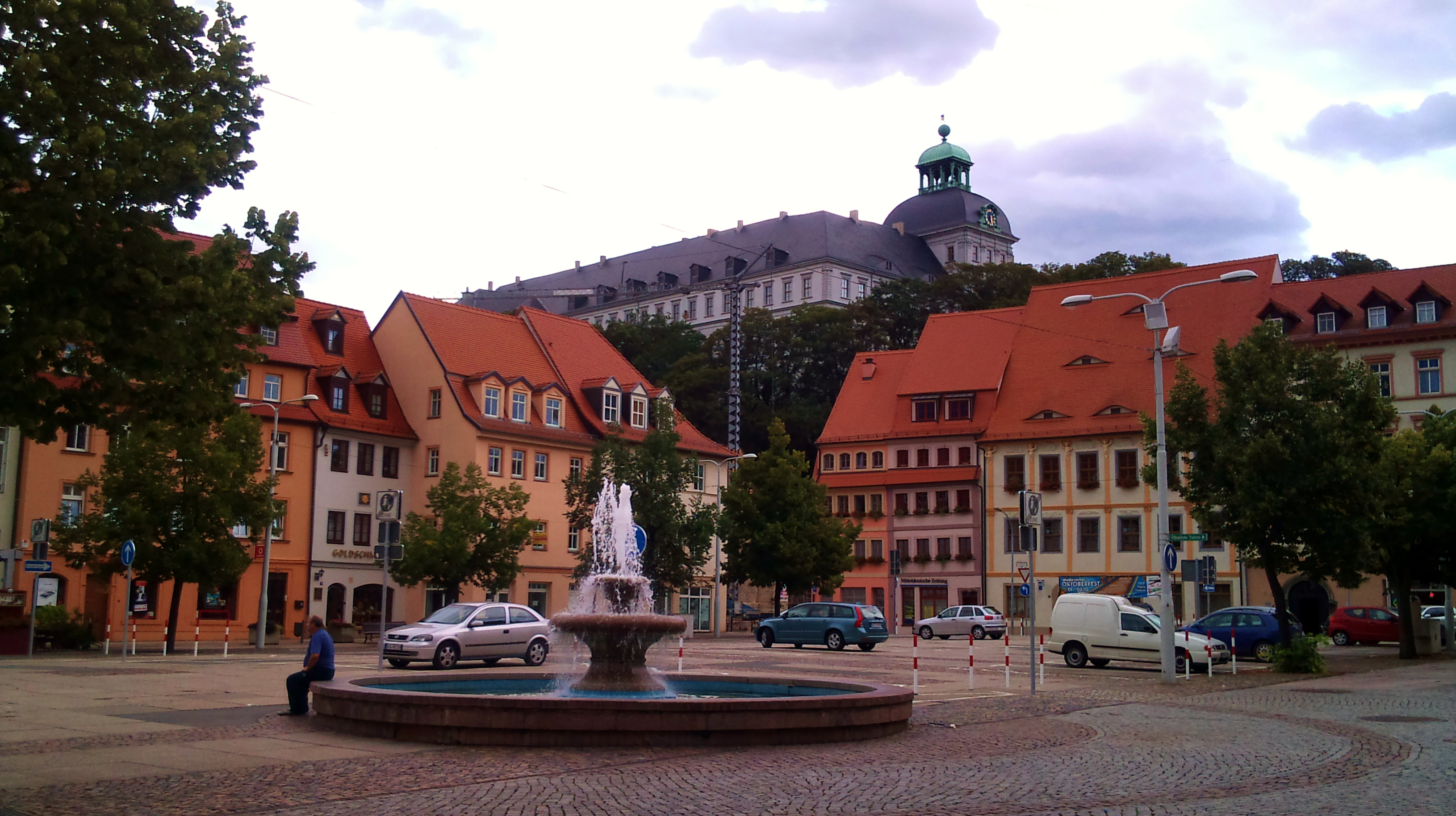 Neu-Augustusburg Castle and market square in Weißenfels, Saxony-Anhalt